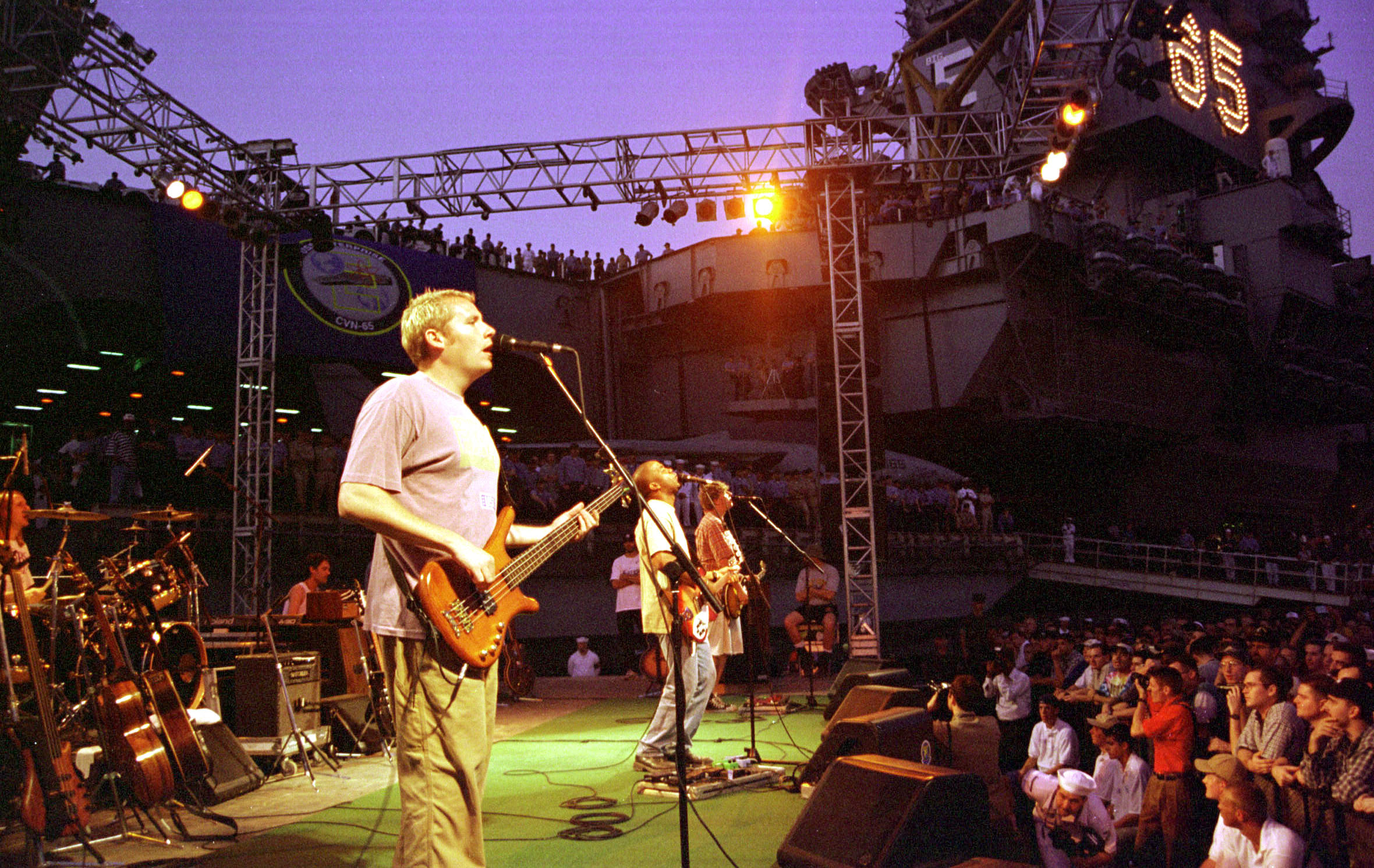 Hootie and the Blowfish; The rock group Hootie and the Blowfish perform a United Services Organization sponsored concert for the crew members of the USS Enterprise (CVN 65) while the ship is in port at Minas Jebel Ali, United Arab Emirates, on Dec. 5, 1998. Enterprise and its embarked Carrier Air Wing 3 are deployed to the Persian Gulf in support of Operation Southern Watch, which is the U.S. and coalition enforcement of the no-fly-zone over Southern Iraq. DoD photo by Petty Officer 1st Class William G. Lewis, U.S. Navy.